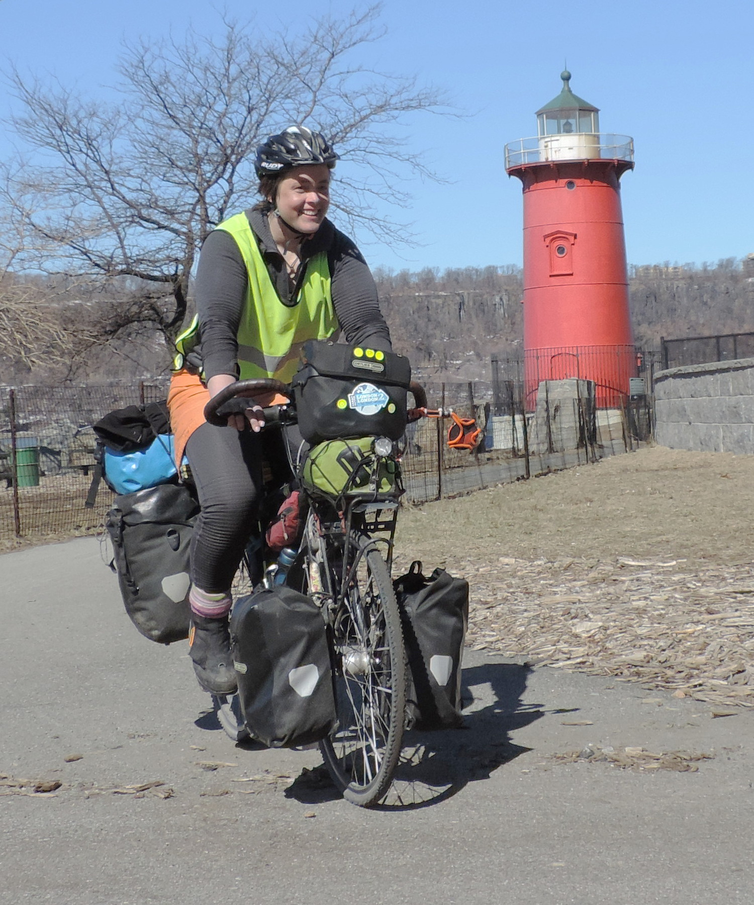 Looking northwest as Sarah Outen rides past lighthouse.